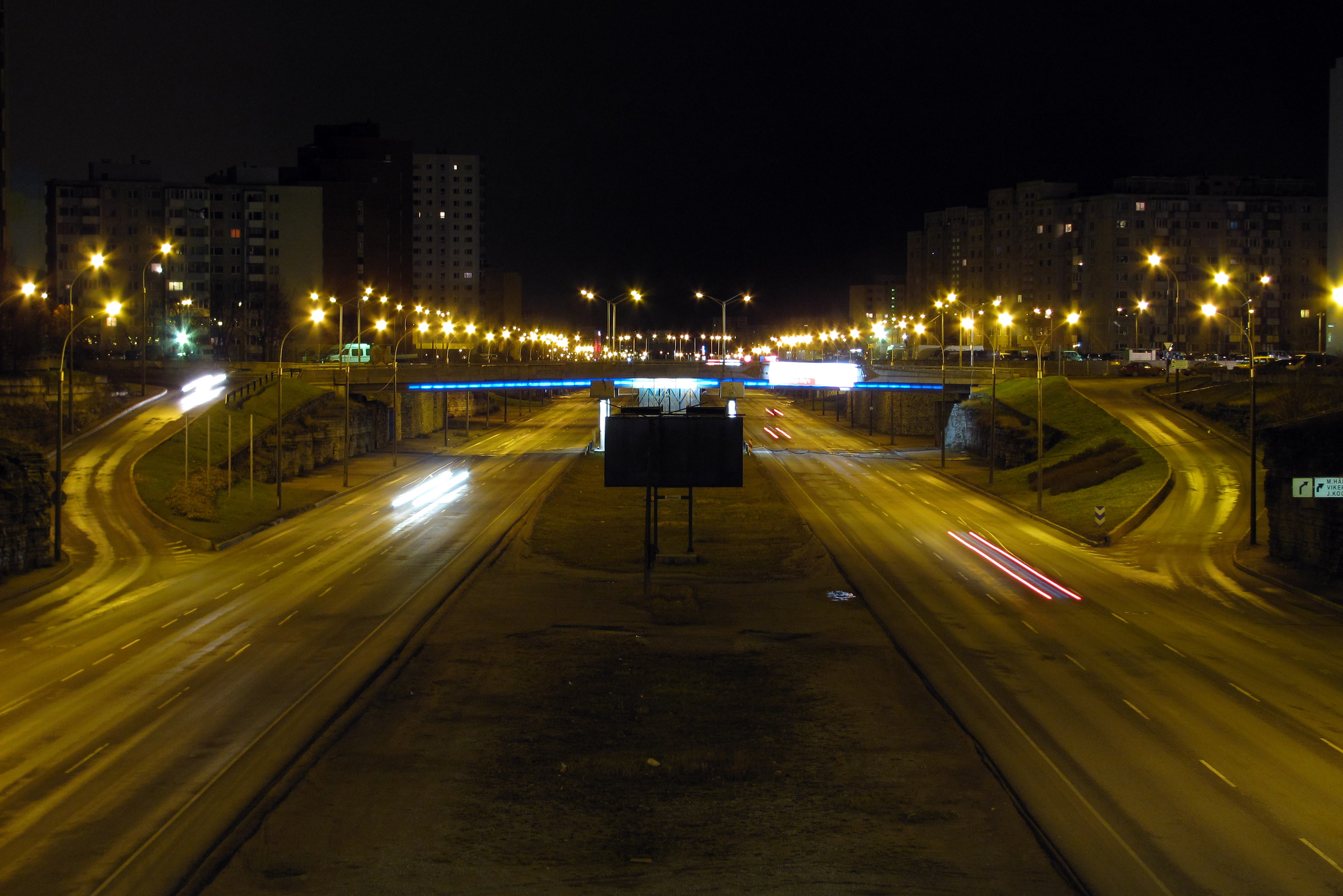 Laagna road, Lasnamäe, Tallinn, Estonia